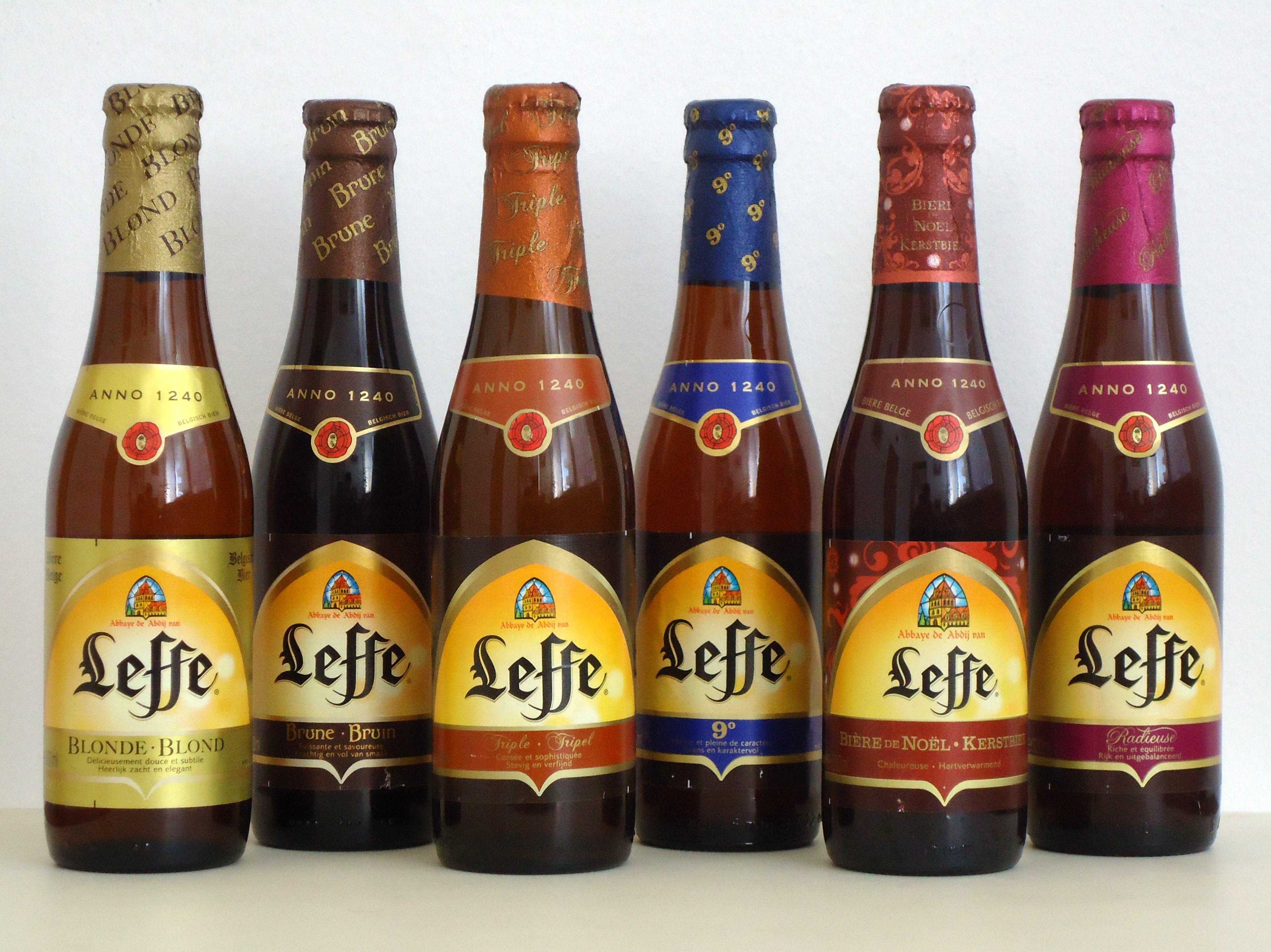 Leffe 6 beers